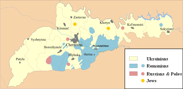 Based on the 2001 Ukrainian census. All areas in question are based on the 1910 bukovina map (after the 1910 Austrian census) as well as the latest 2001 ukranian census.